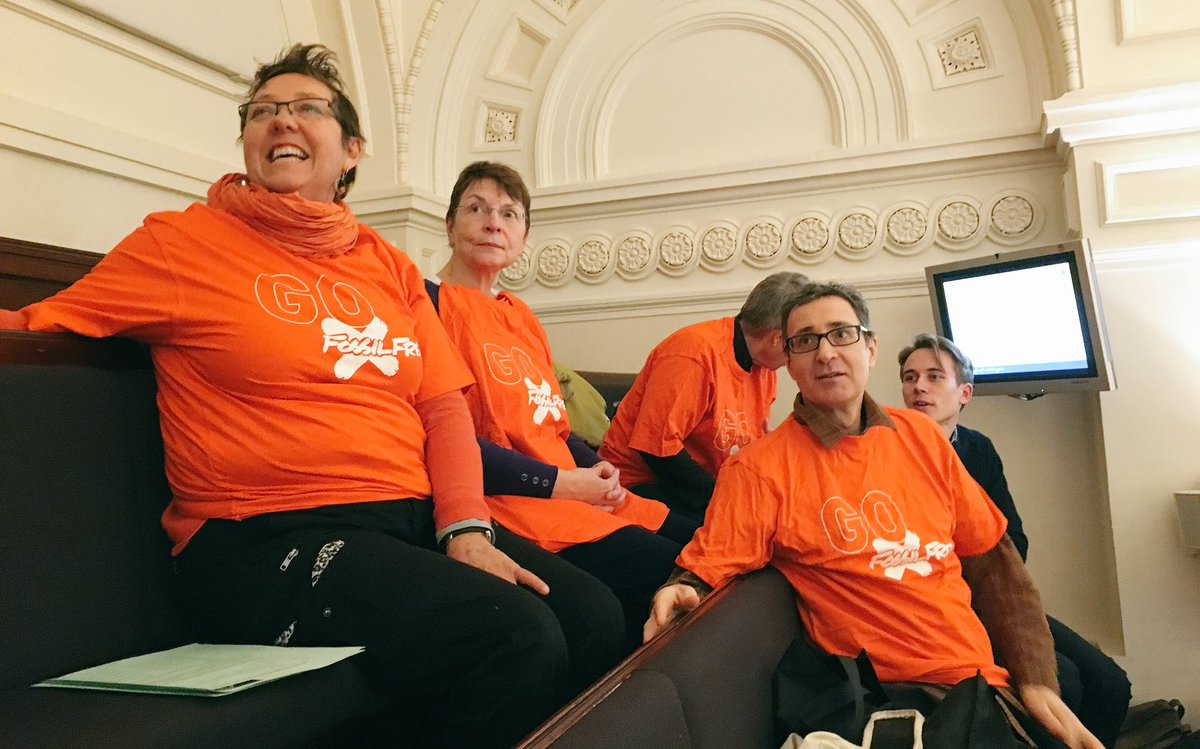 Divestment Action At City Of Sydney Council Meeting